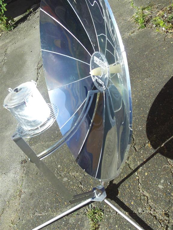 "Sungril" Swiss designed parabolic solar cooker